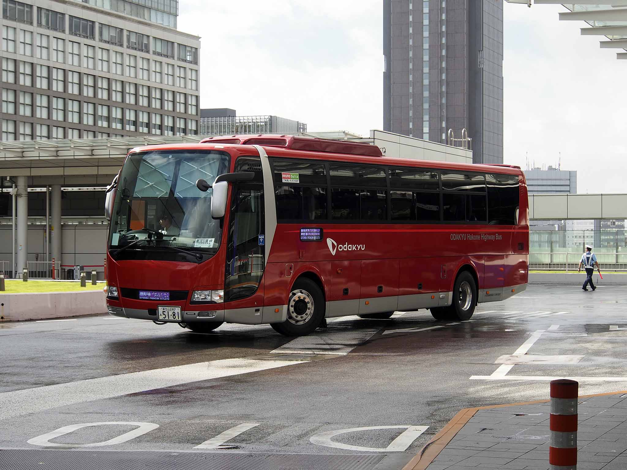 Fleet of Odakyu Hakone Highway Bus, collaborated with Odakyu Railways 70000 series Romance Car "Graceful Super Express" since May 2018. Model: Mitsubishi Fuso Aero Ace 2TG-MS06GP License plate: SZF240 A5181 Place:Shinjuku Expressway Bus Terminal